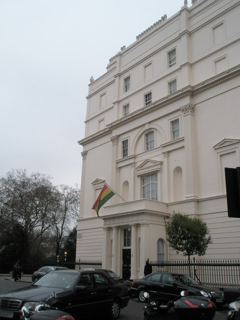 The Ghanaian High Commission in West Halkin Street